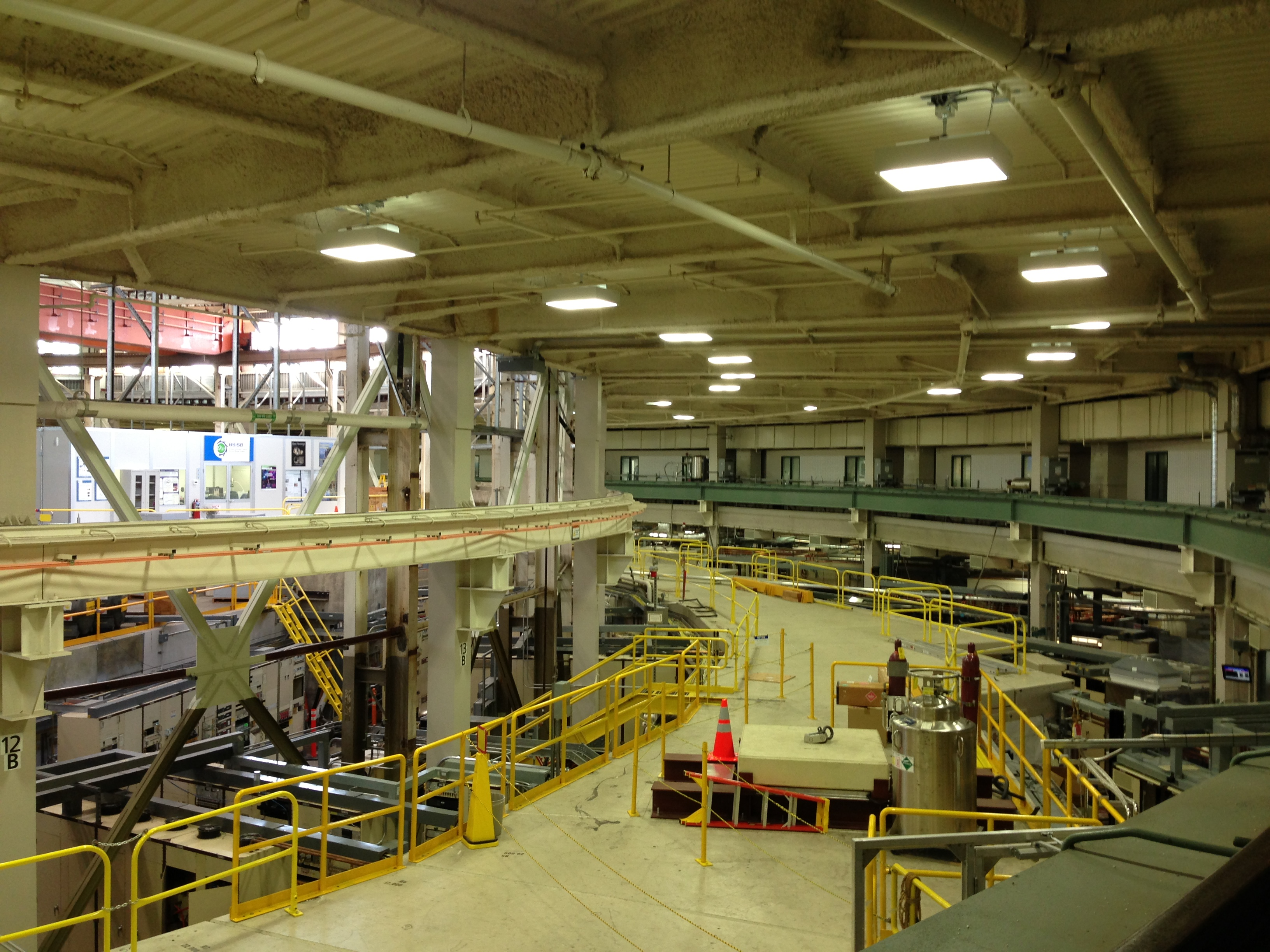 Advanced Light Source from overlook gallery